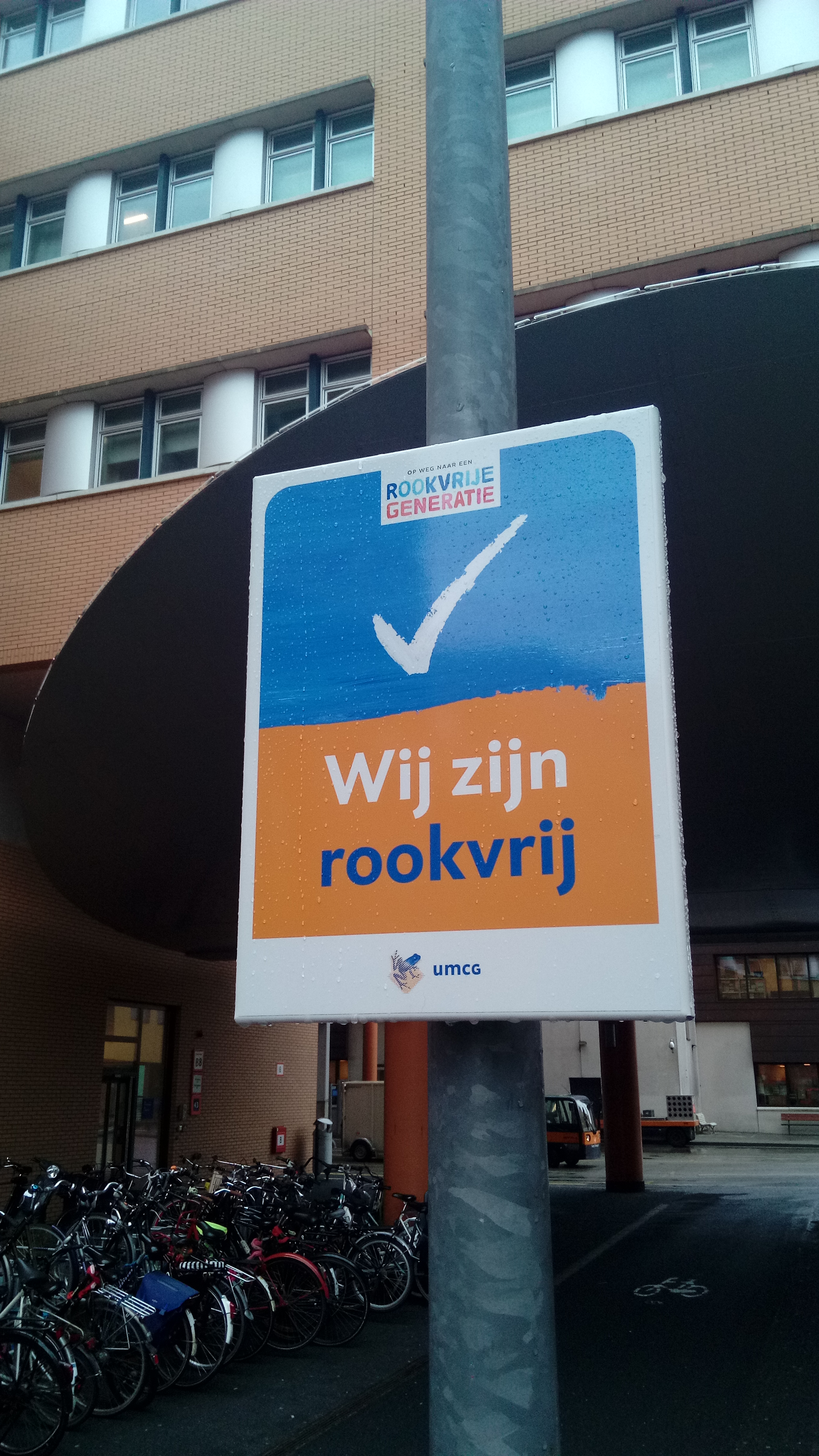 A sign indicating that this area in the UMCG hospital 🏥 in the city of Groningen is a a no smoking 🚭 area.